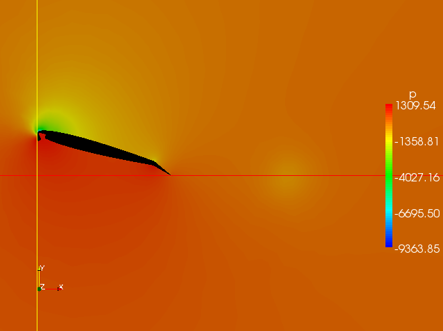 CFD simulation of a wing profile with plain flap and (leading edge) krueger flap. The starting vortex is visible as a drop in the pressure field. Simulated with OpenFOAM (turbulence model: Spalart-Allmaras) and ParaView.